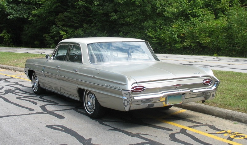 Rear three quarter view of a 1962 Oldsmobile Super 88 Celebrity Sedan.